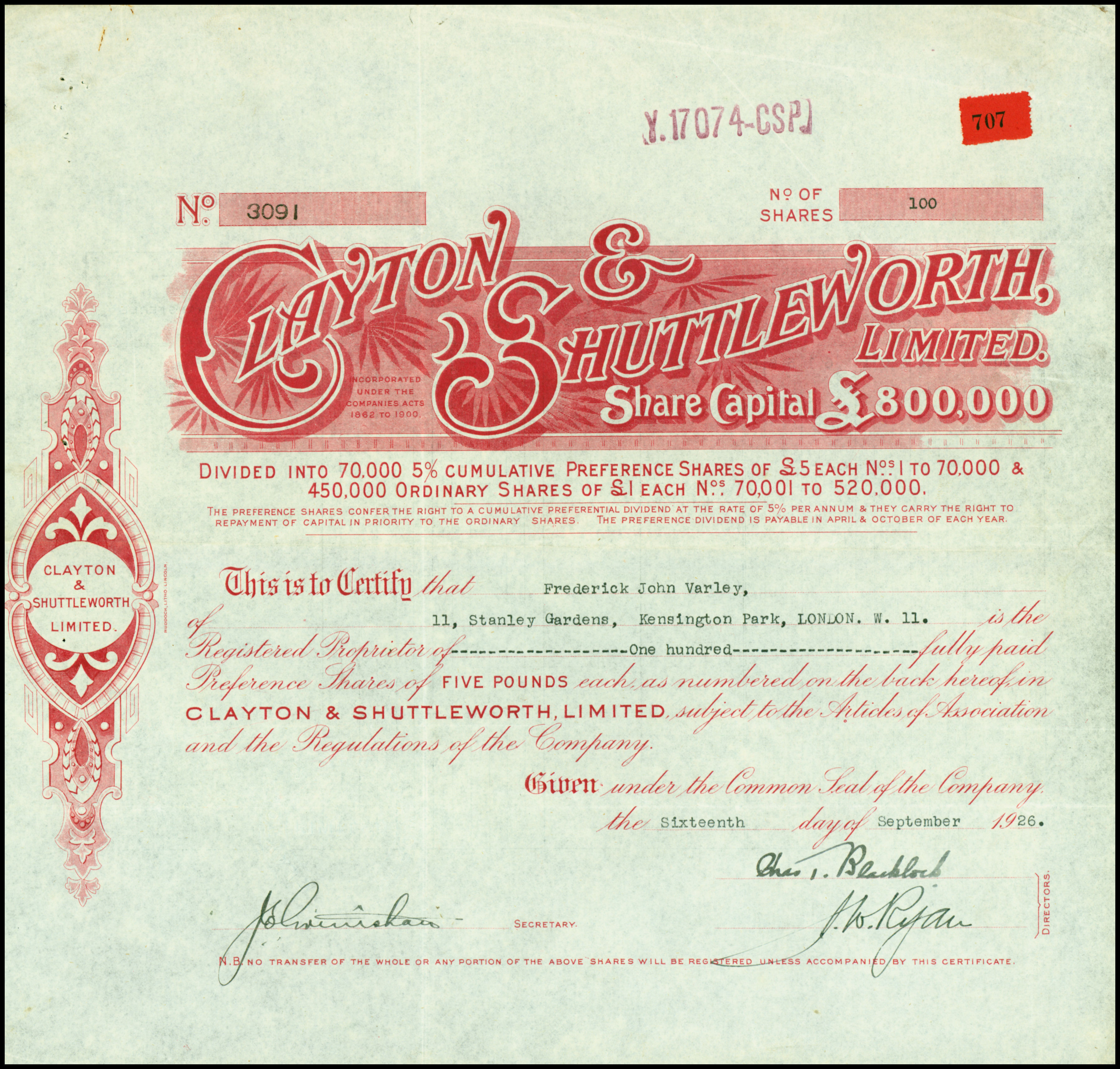 Preference Share of the Clayton & Shuttleworth Ltd., issued 16. September 1926